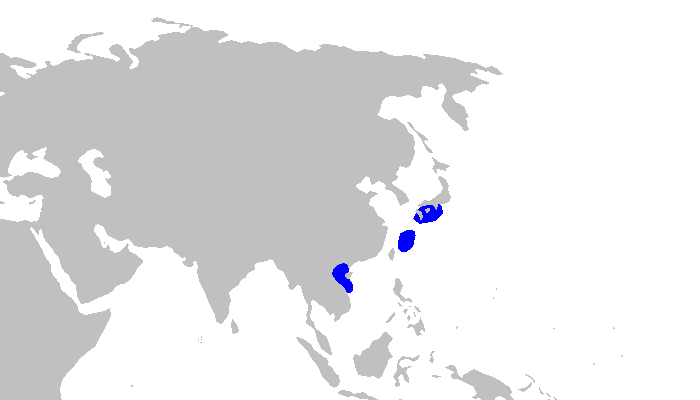 Distribution map for Galeus eastmani